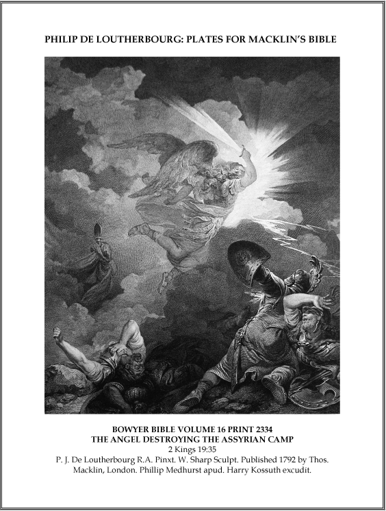 A plate engraved for the Macklin Bible after a specially-commissioned painting by Philippe Jacques De Loutherbourg. Photograph from the Bowyer Bible, Bolton, England. Bowyer Bible 16.2334. The Angel Destroying the Assyrian Camp. An angel attacking soldiers cowering on the ground with a sword of light (2 Kings 19:35). 1792. Inscriptions: Lettered below the image with the title, bible reference and: "P. J. De Loutherbourg R.A. Pinxt. / W. Sharp Sculpt. / London Published Octr. 5th. 1792, by Thos. Macklin, Poet's Gallery, Fleet Street". Print made by William Sharp. Dimensions: Height: 475 millimetres; width: 390 millimetres.